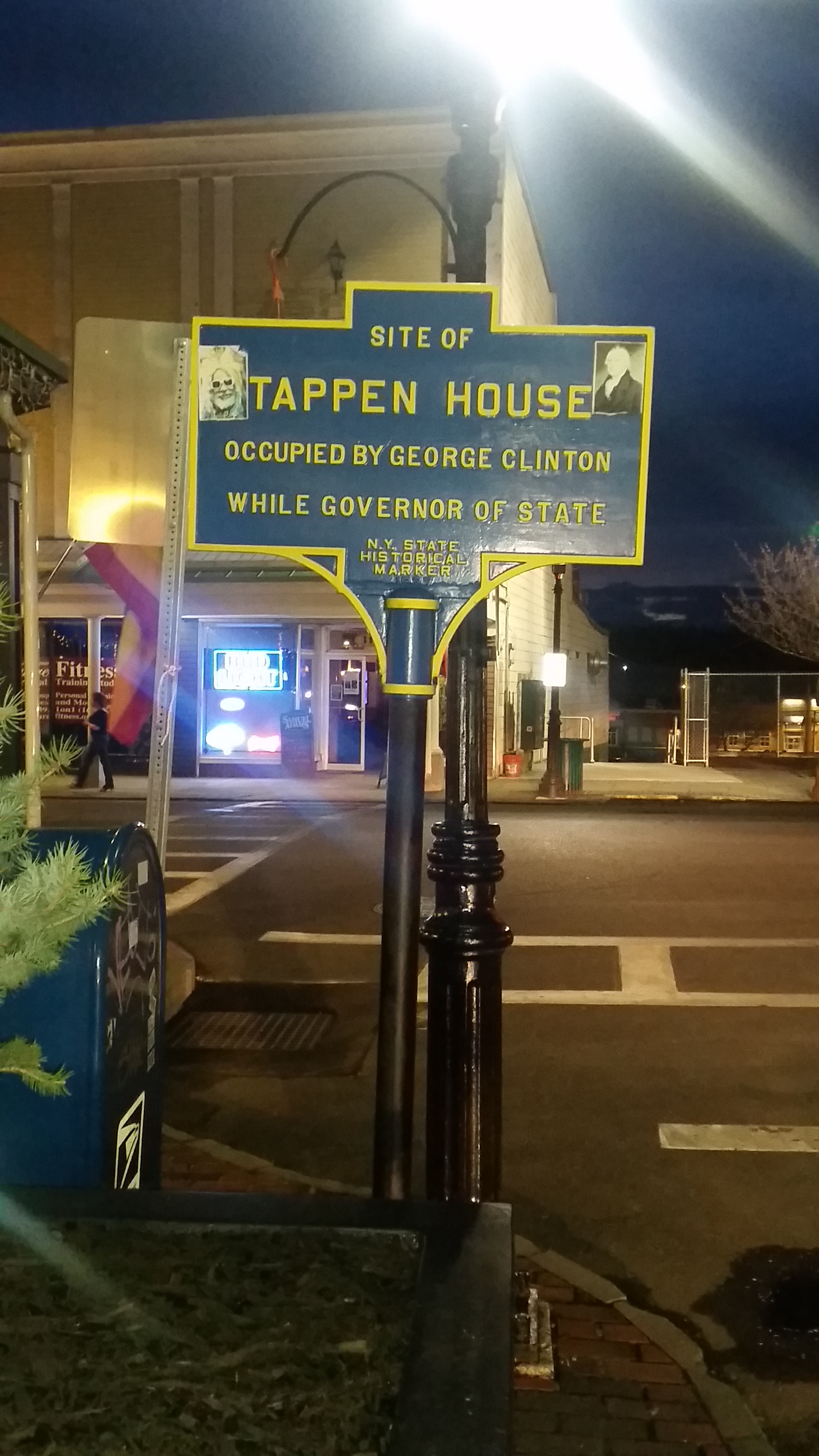 The site of the Tappen House, occupied by George Clinton while governor of NY in 1777 and later while mixing both Hey Man, Smell My Finger and Dope Dogs